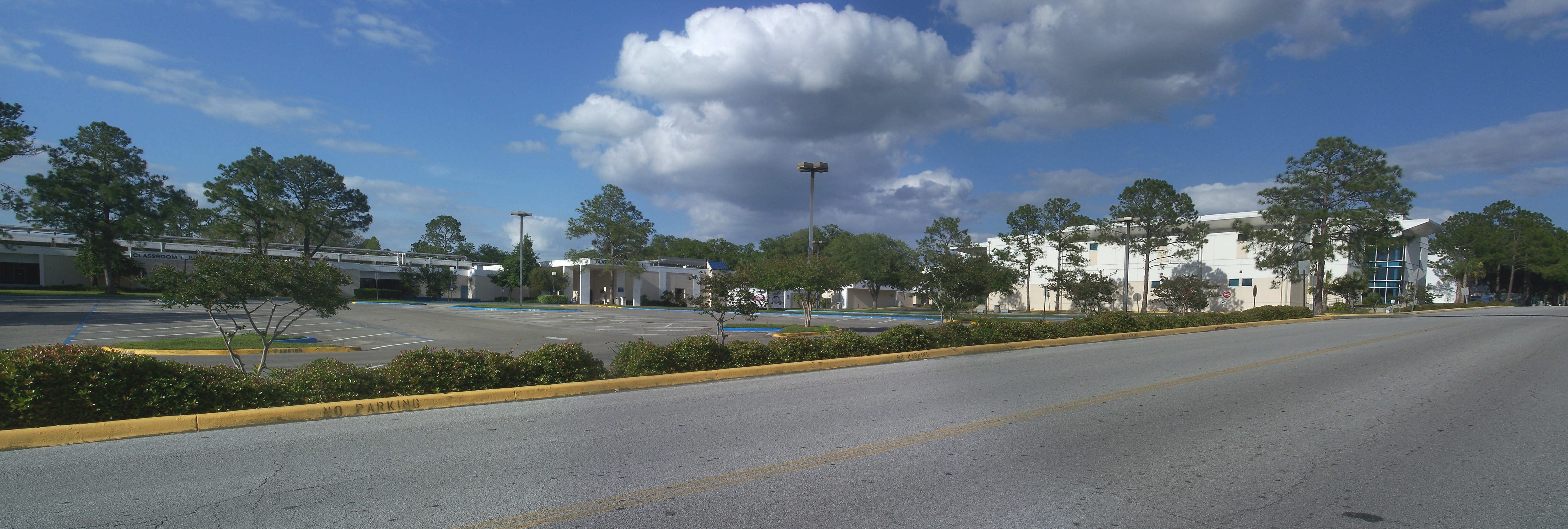 Gainesville: Panorama of main campus, looking northeast